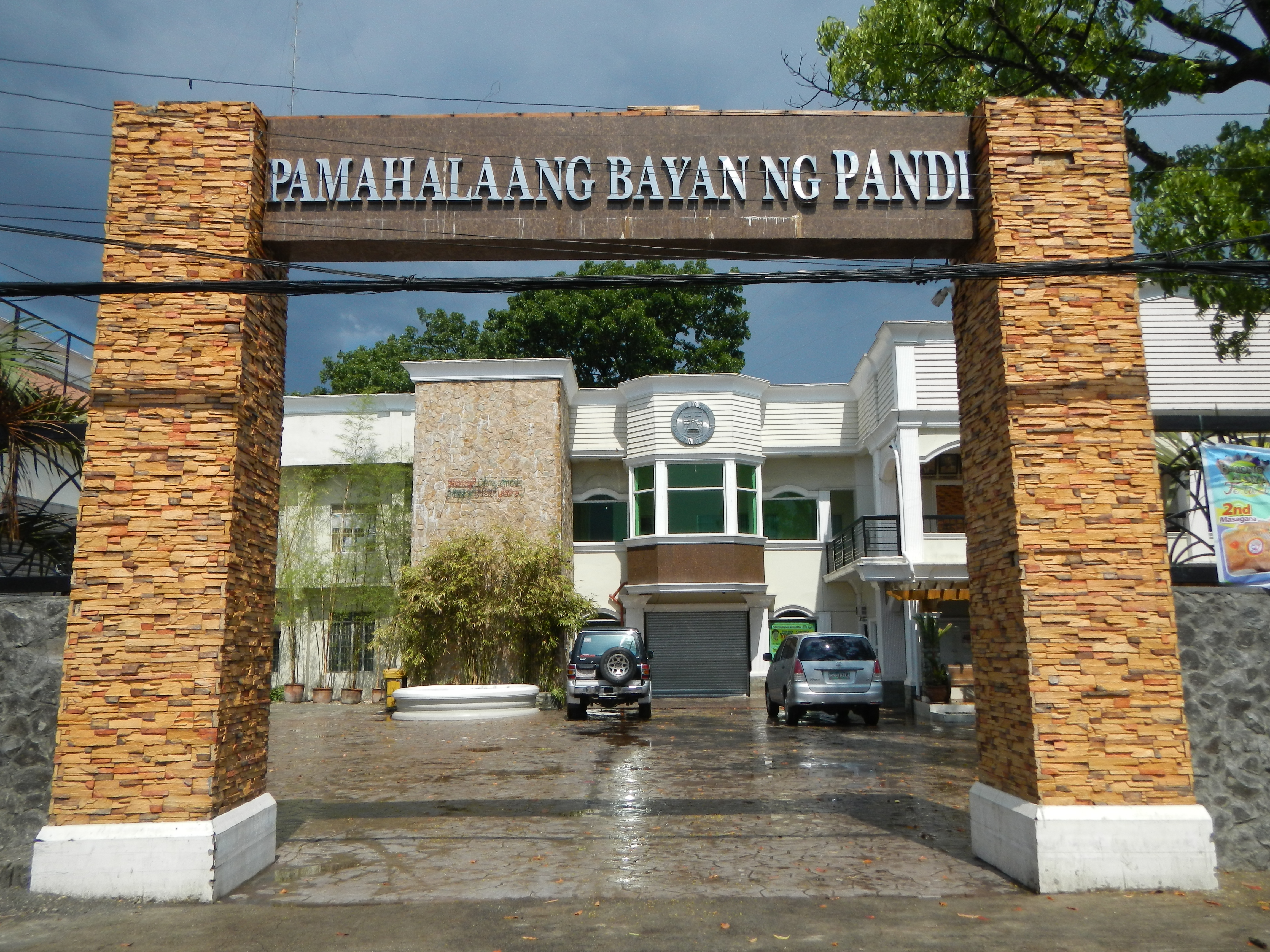 Poblacion, Pandi, Bulacan: the Pandi, Bulacan Municipal Hall Complex, Compound, beside the Gatebank and Police station, and surrounding buildings along the Santa Maria-Pandi-Bustos-Baliuag Road.